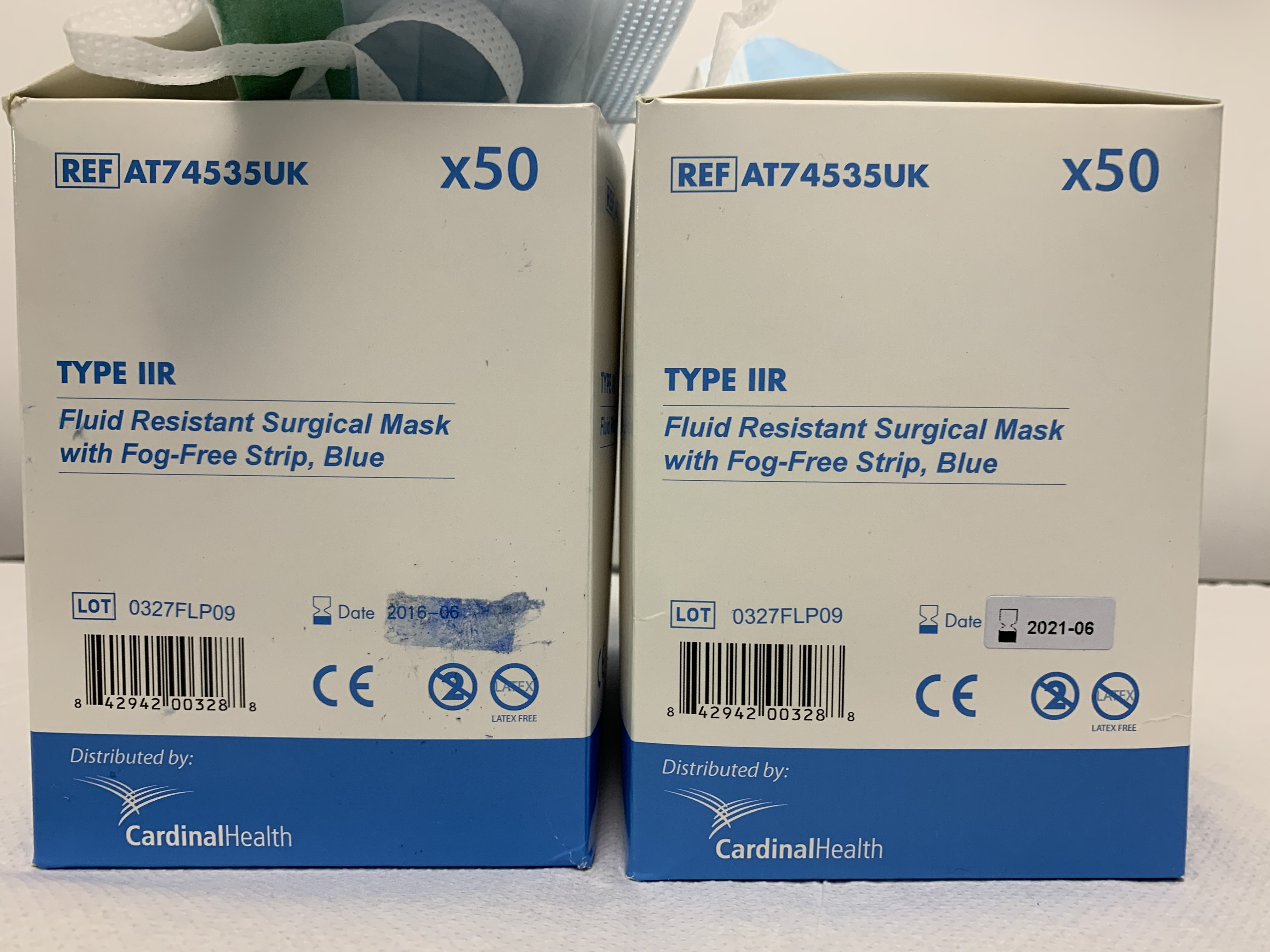 Fluid resistant surgical masks supplied to NHS staff March 2020, showing expiry dates